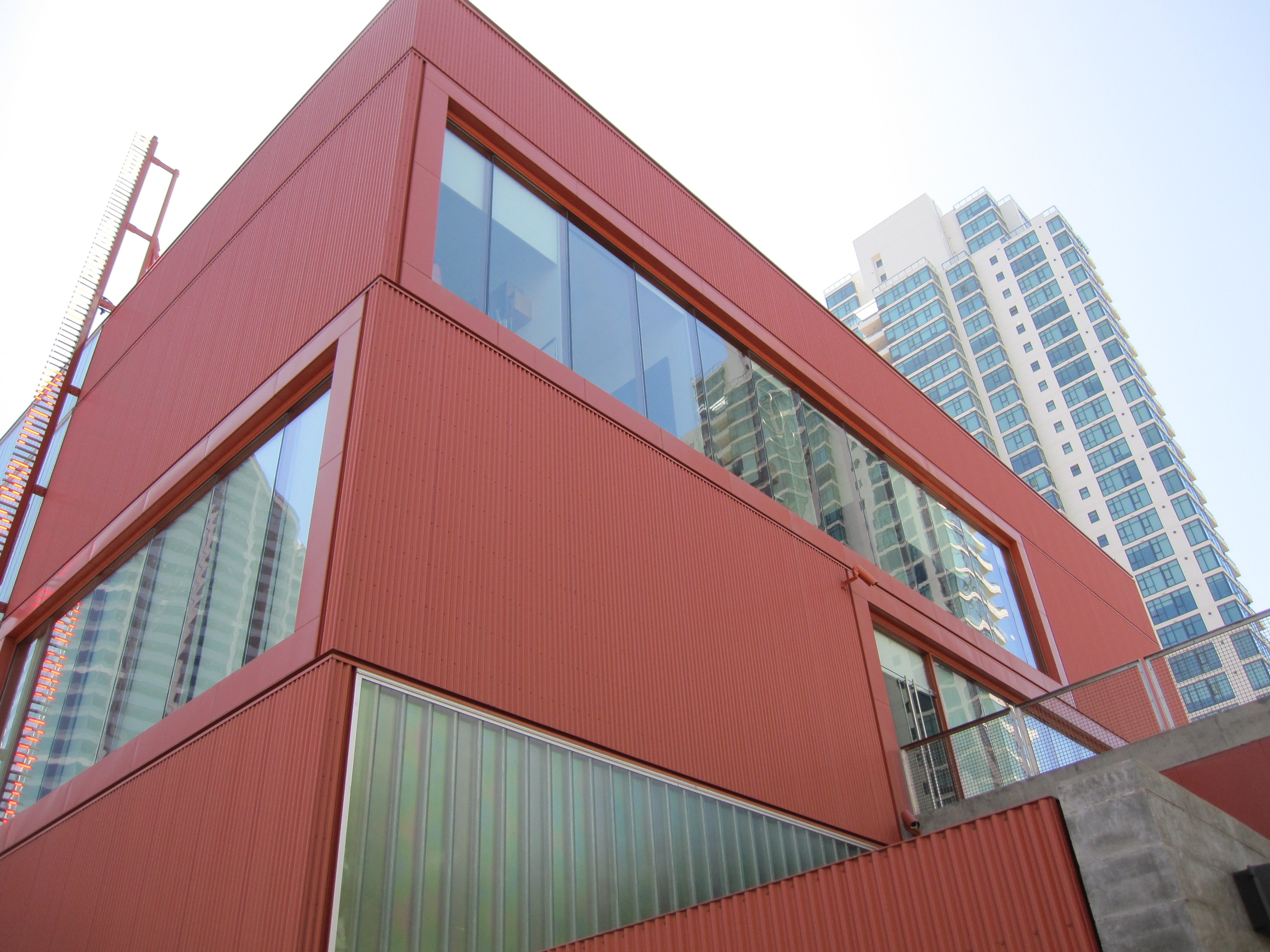 Museum of Contemporary Art, Downtown San Diego - new building built to connect with space occupied by the museum in part of the Santa Fe train station.